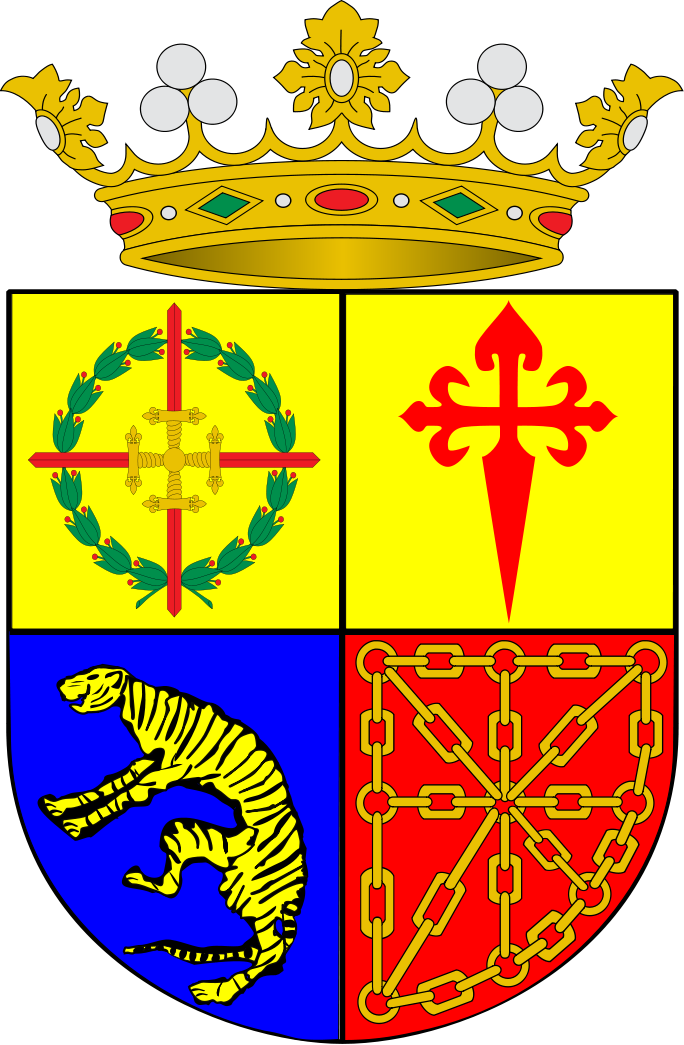 Coat of Arms of the Marquess of Somosierra.